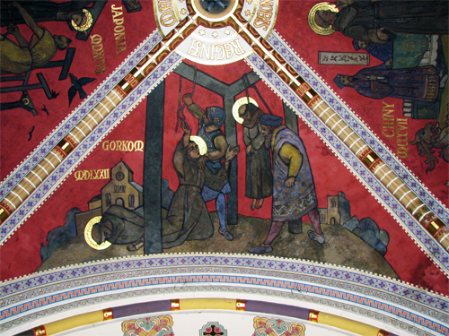 Painting of Martyrs of Gorkum, Chapel of the Martyrs of Nepi in Katowice Panewniki